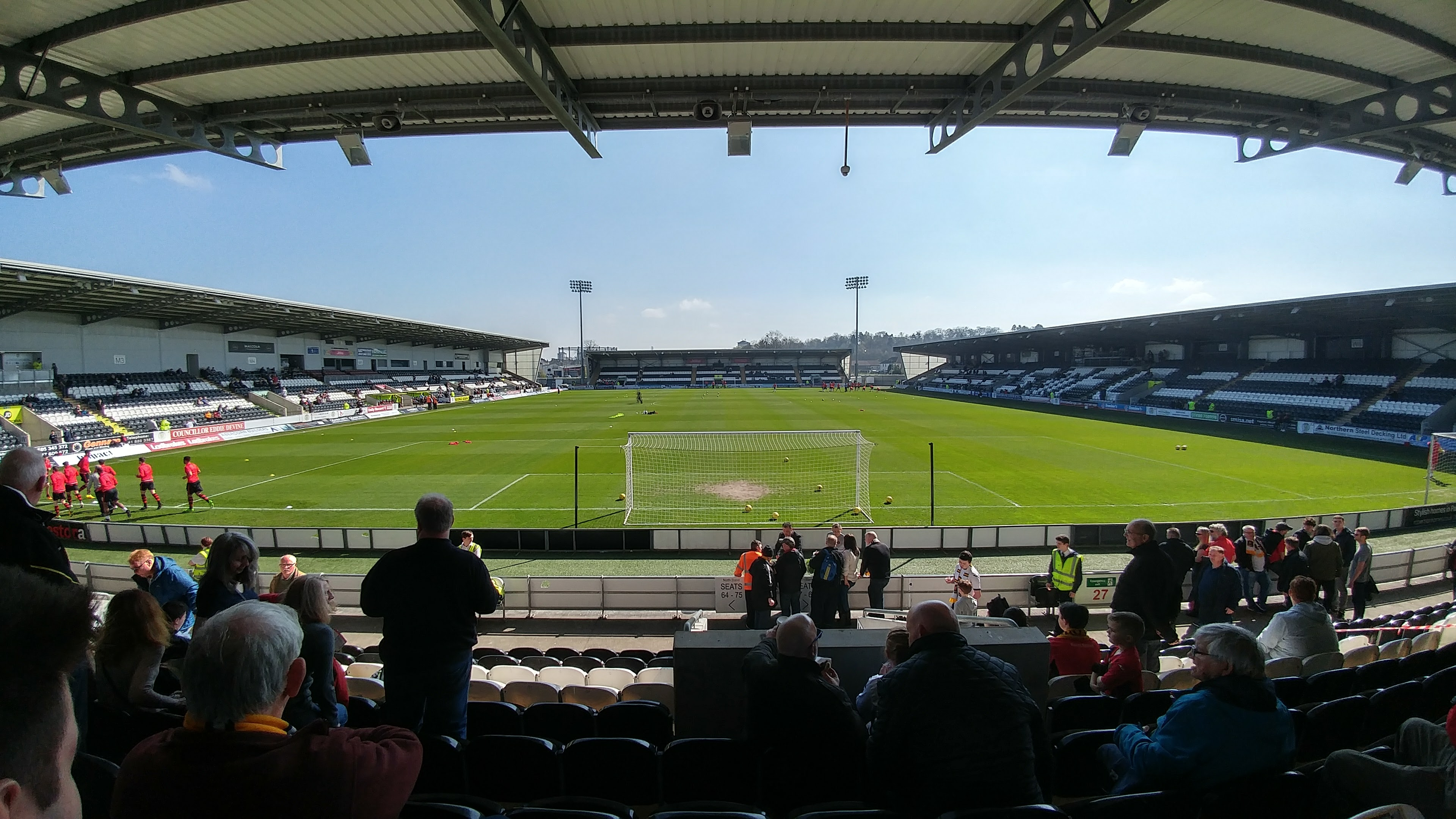 St Mirren Park (The Paisley 2021 Stadium), home of Scottish Professional Football League (SPFL) side St Mirren FC, taken from the away end prior to a game against Dumbarton in April 2017